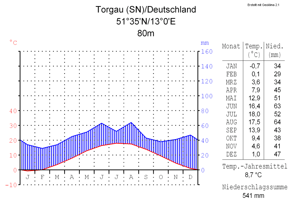 climate chart in the format by Walter and Lieth, metric, °Celsisus and millimeters, made with Geoklima 2.1